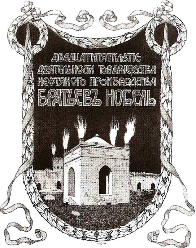 Symbol of The Nobel Brothers Petroleum Company, Limited, created by the Company in 1880 (author unknown) and used until 1920. The present symbol was never copyrighted